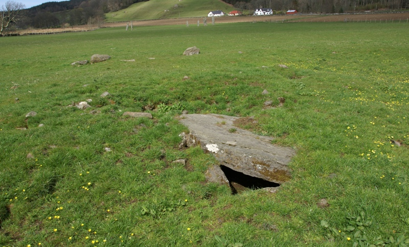 Ballymeanoch, Kilmartin Glen, Scotland - henge